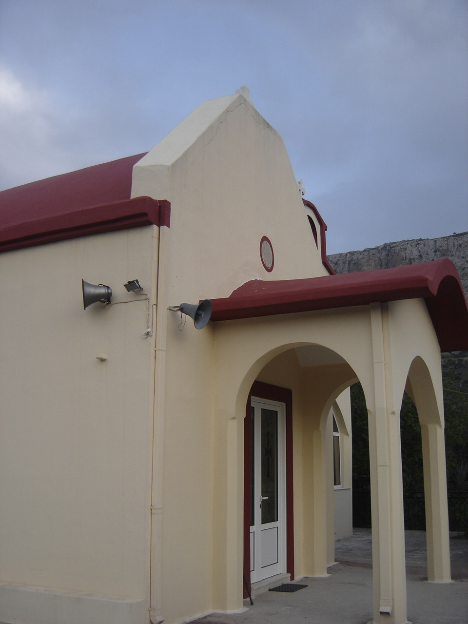 The church of Agia Paraskevi in Thomadiano.